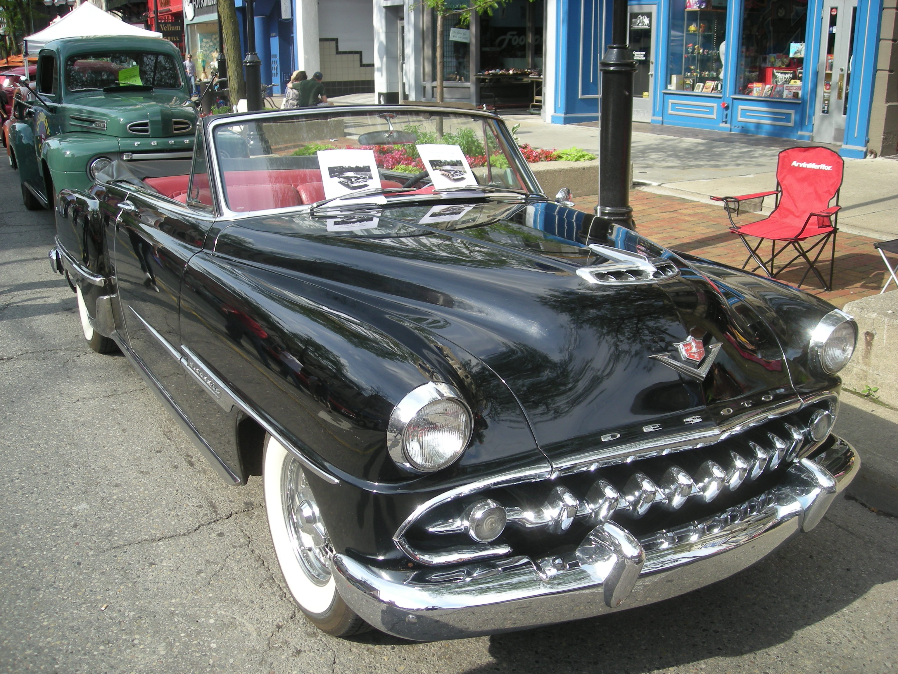 A 1954 DeSoto Firedome at the 2014 Rolling Sculpture Car Show in Ann Arbor, Michigan (United States).